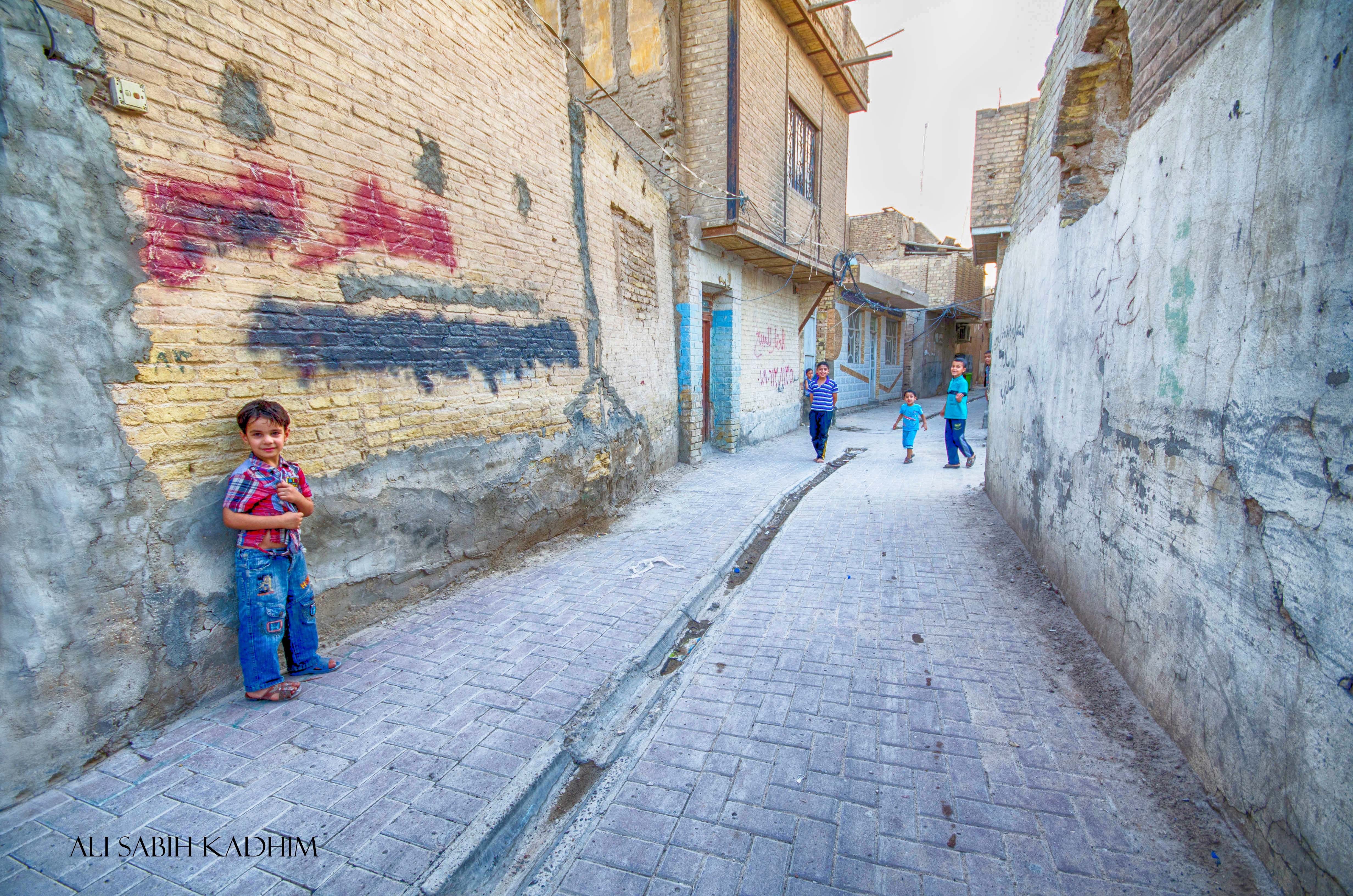 شوارع قديمة من مدينة النجف